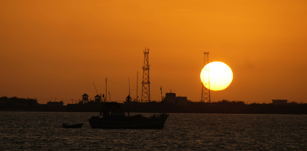 In Dwarika, gujarat